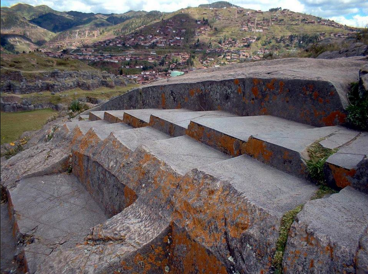 Ancient stone cutting precision in Sacsayhuamán (also known as Saksaq Waman, Sacsahuaman or Saxahuaman) is a walled complex on the northern outskirts of the city of Cusco, Peru.